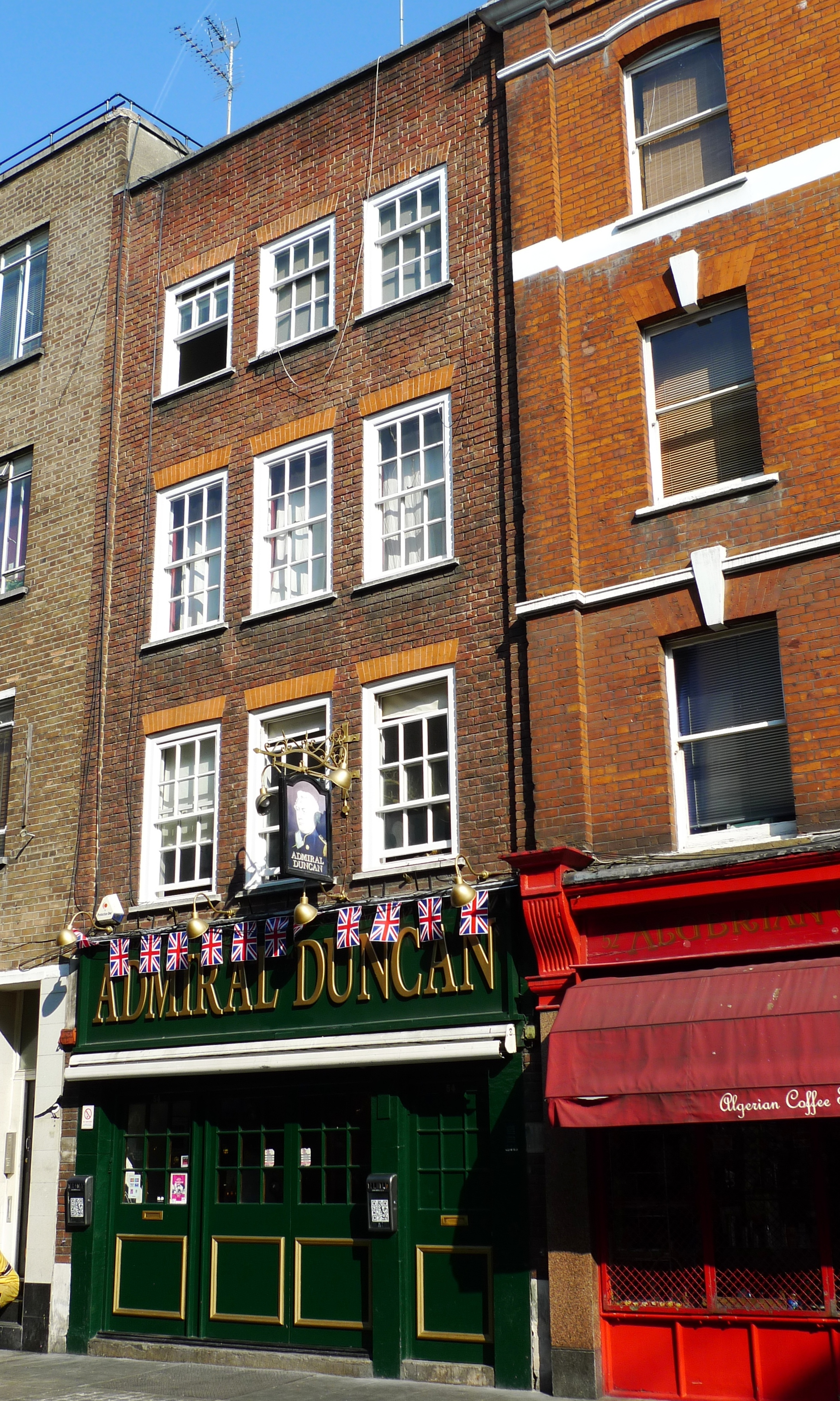 A pub on Old Compton St, the site of a notorious nail bomb attack in 1999. (Older photo of it.) Address: 54 Old Compton Street. Owner: TCG Acquisitions (website); Punch Taverns [Spirit Group] (former). Links: Fancyapint Pubs Galore Beer in the Evening Wikipedia Dead Pubs (history)